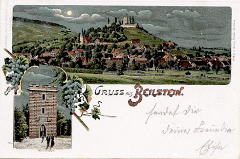 Beilstein ca. 1900